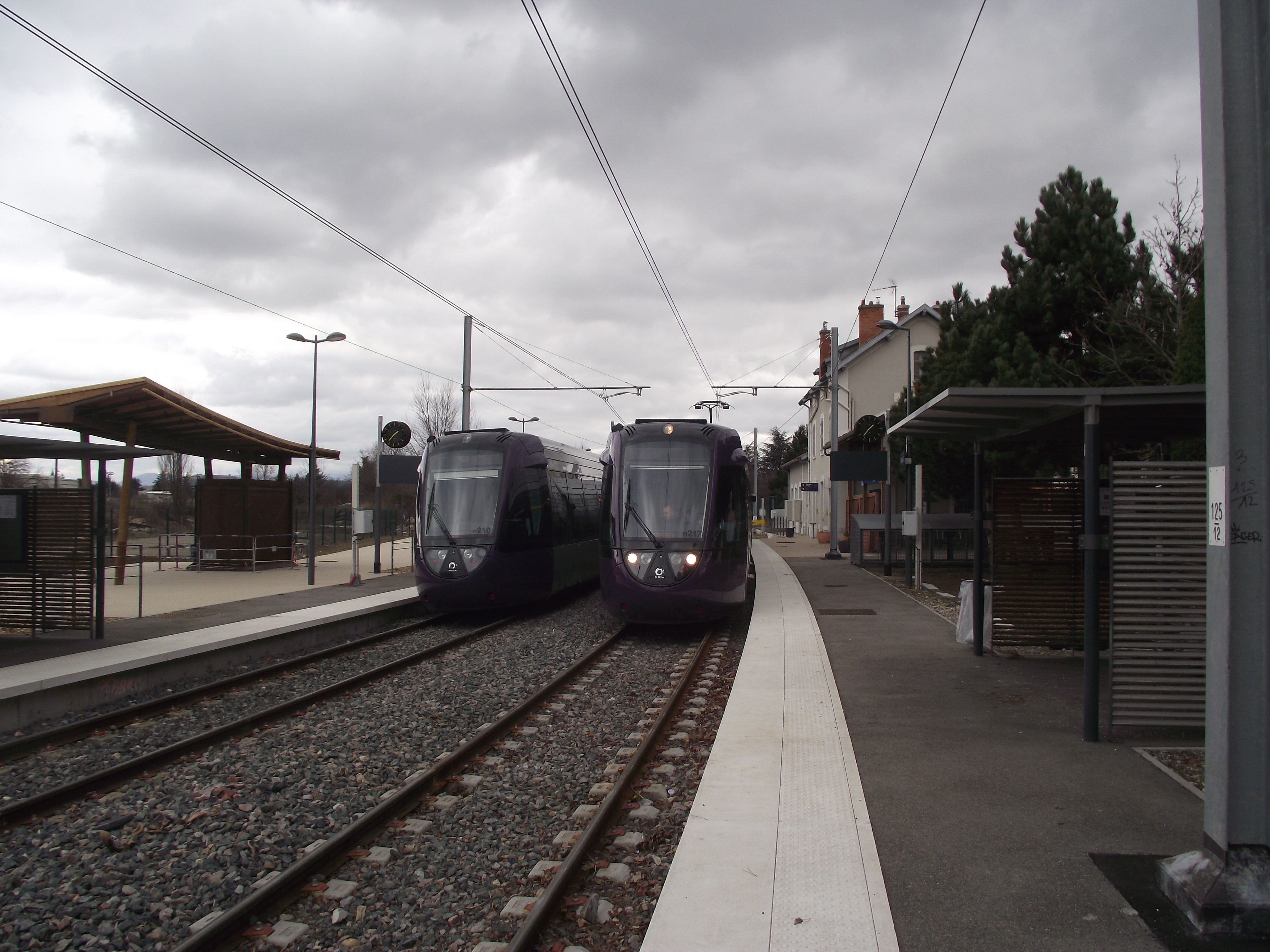 Brignais terminus of the Lyon Tram-train.